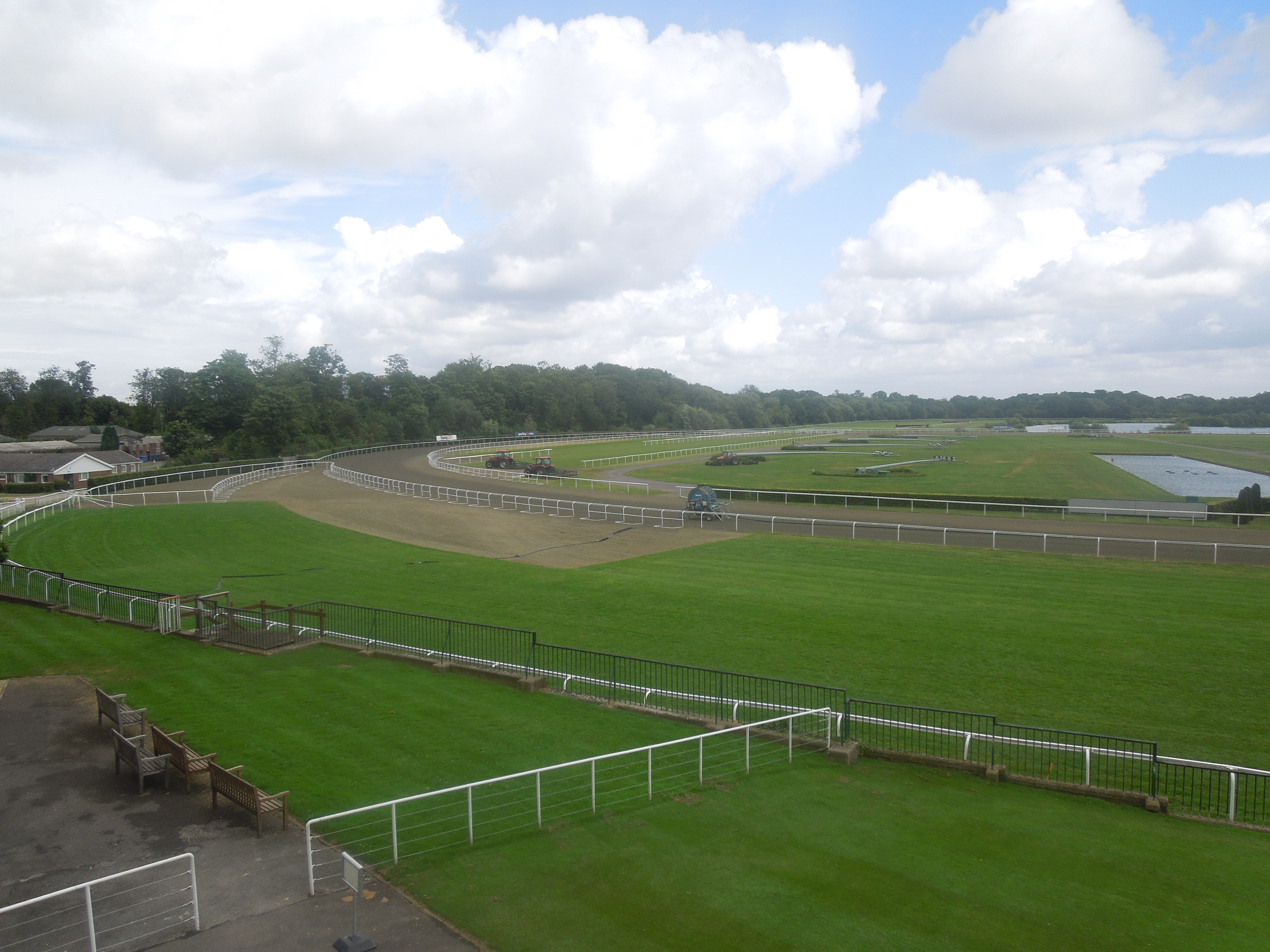 Photo of the Rock Gem 'n' Bead Show (August 4 and 5, 2012, Kempton Park Racecourse, London, United Kingdom).